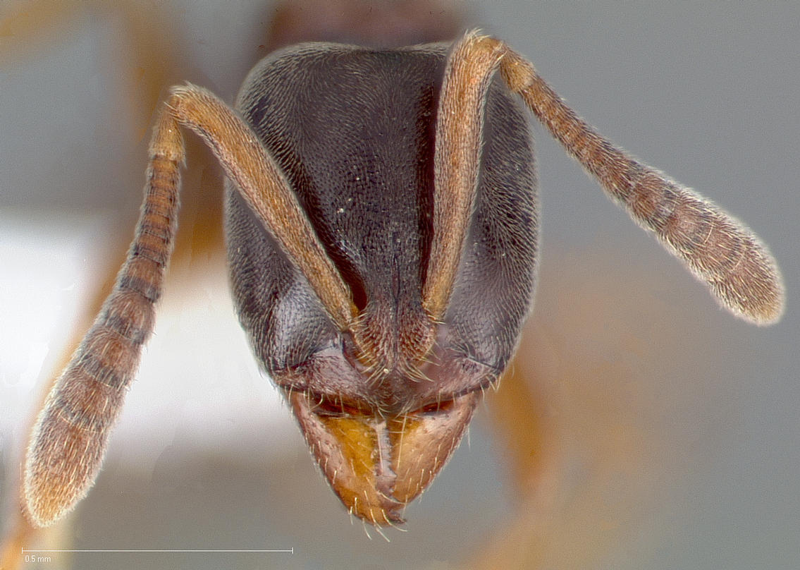 Head view of ant Hypoponera opacior specimen casent0005436.